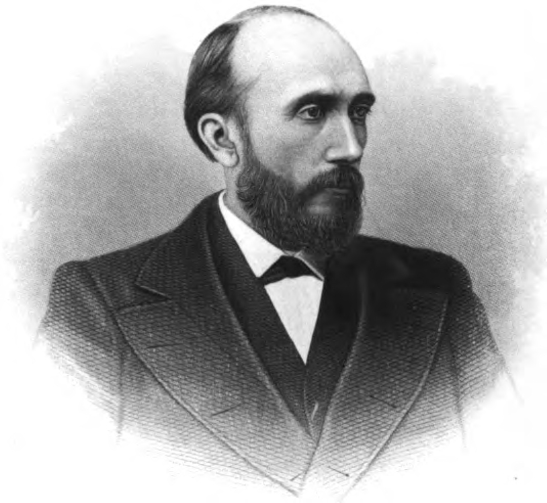 William D. Hill, Ohio congressman in 1897.